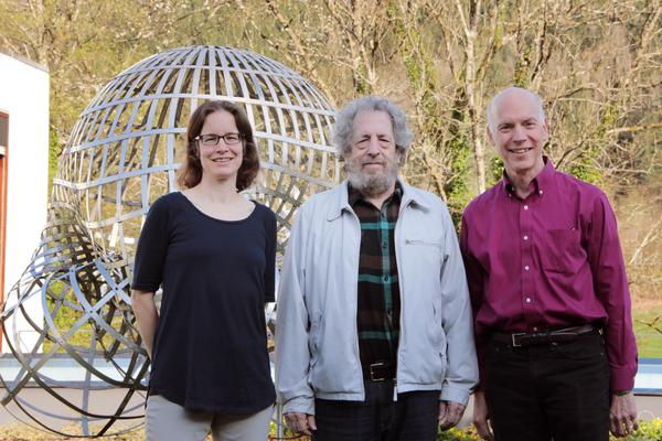 Description at MFO: On the Photo: * Imhausen, Annette (left) * Ritter, Jim (middle) * Warner, Paul W. (right) * Occasion:RiP2017: Research in Pairs 2017 * Location: Oberwolfach * Author: Ruf, Tatjana (photos provided by Ruf, Tatjana) * Source: MFO * Year: 2017 * Copyright: MFO * Photo ID: 21669